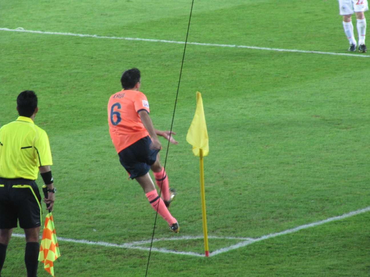 Xavi plays a corner during the final of 2009 FIFA Club World Cup